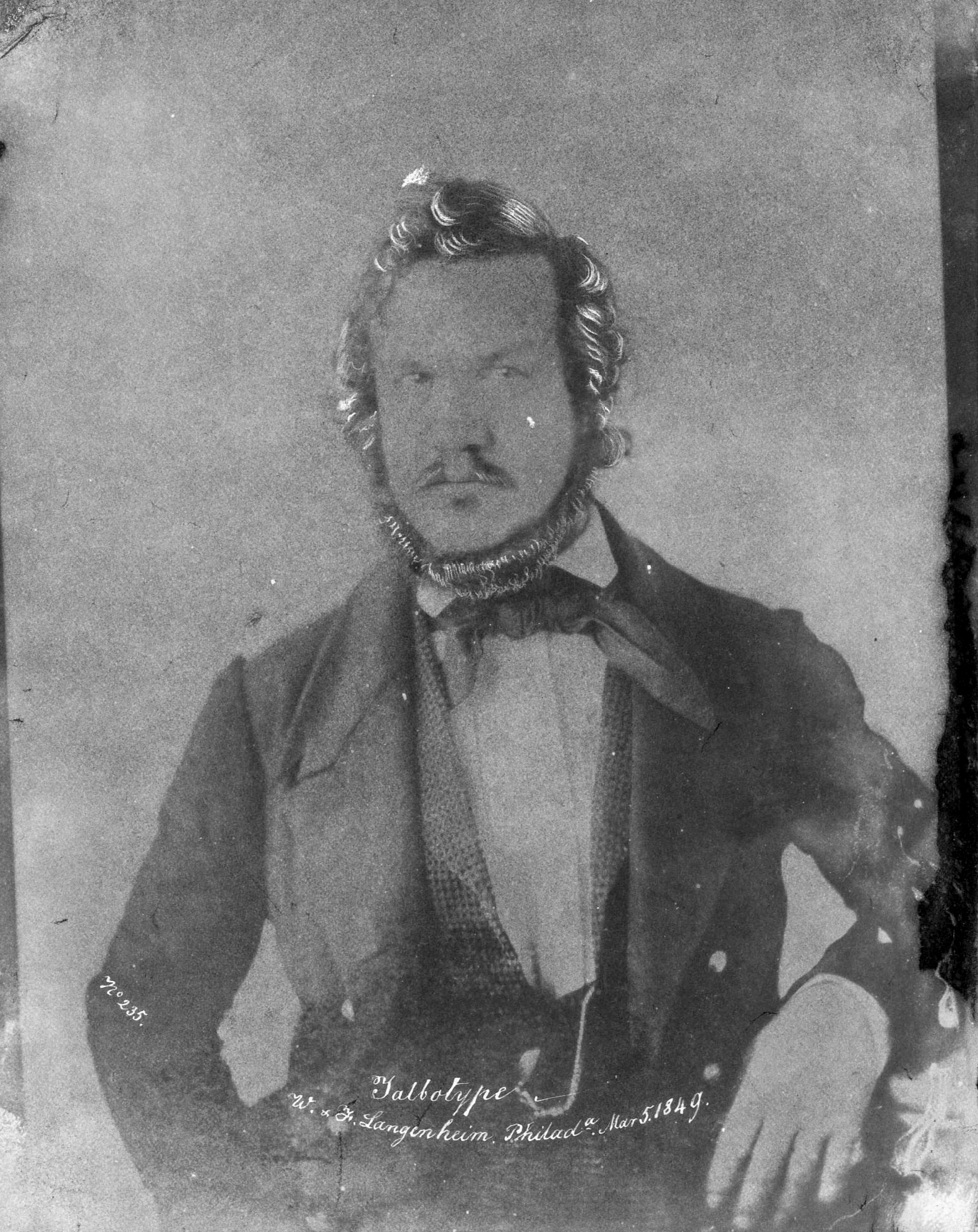 Portrait of Frederick Langenheim c. 1849 annotated 'Talbotype, W. & F. Langenheim, Philada., Mar. 5 1849. No. 235' in ink (on the recto)